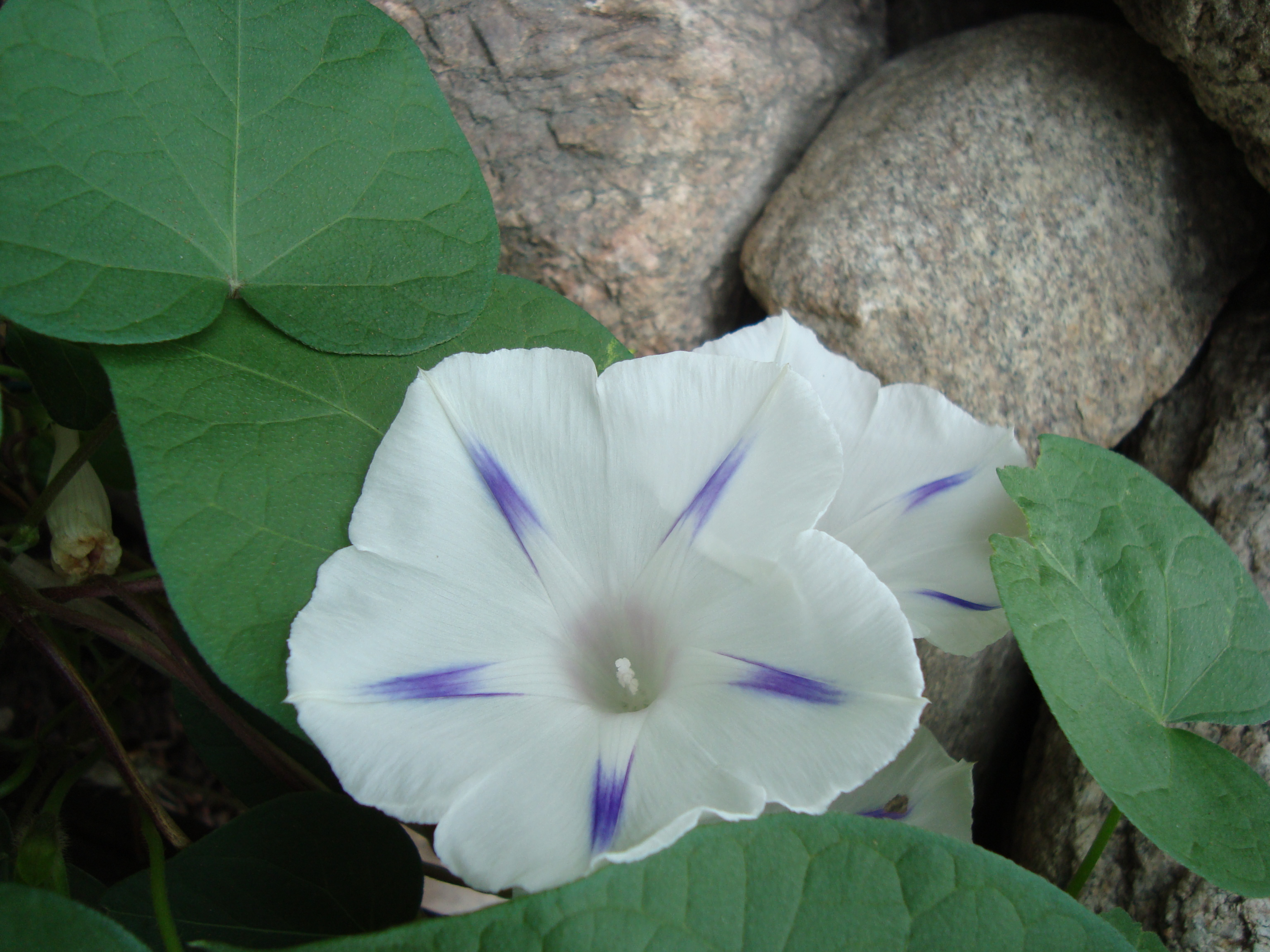 Ipomoea purpurea 'Milky Way'